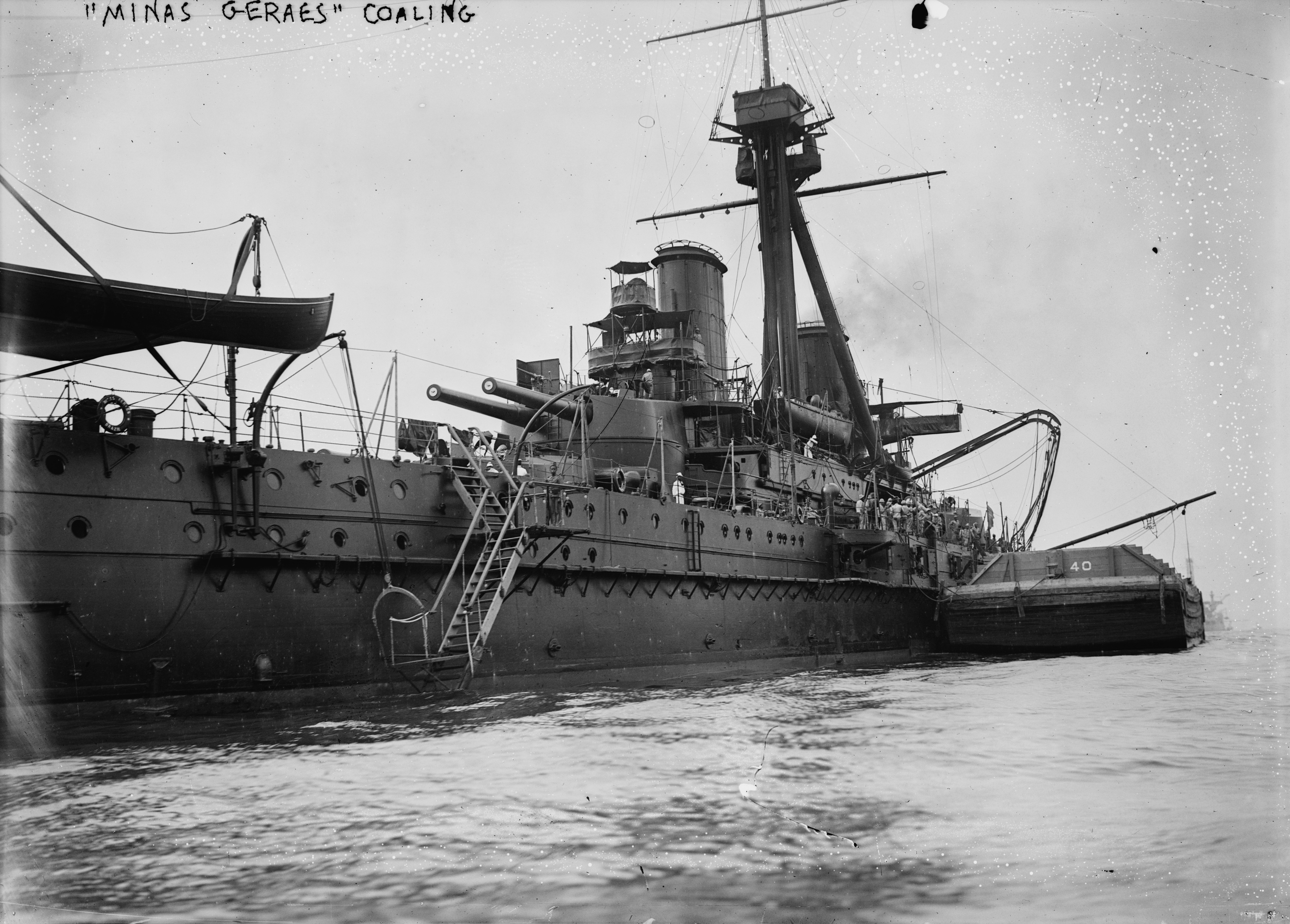 Minas Geraes taking on coal